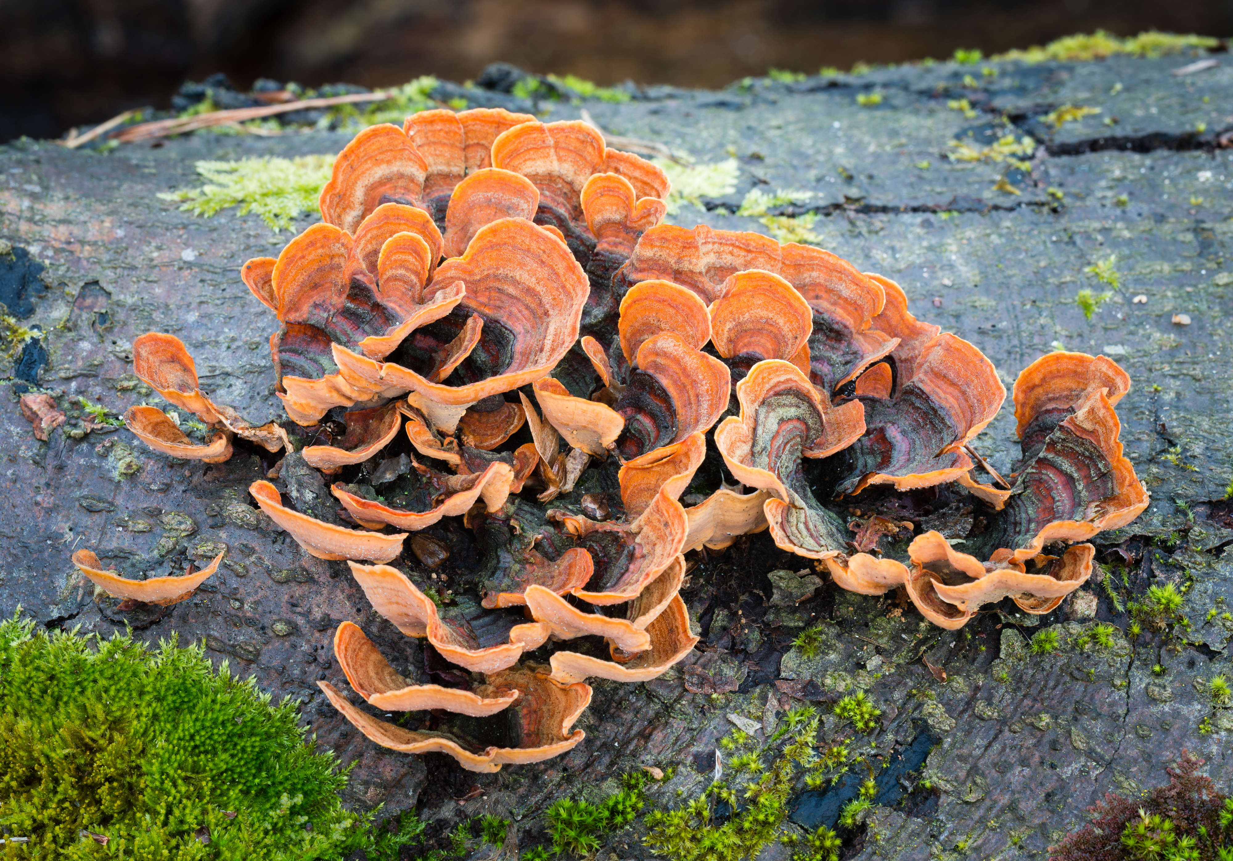 False turkey-tail - (Stereum hirsutum) near Mörfelden-Walldorf, Hesse, Germany.